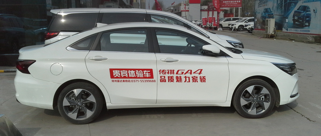 GAC Trumpchi GA4 photographed in Zhengzhou, Henan province, China.